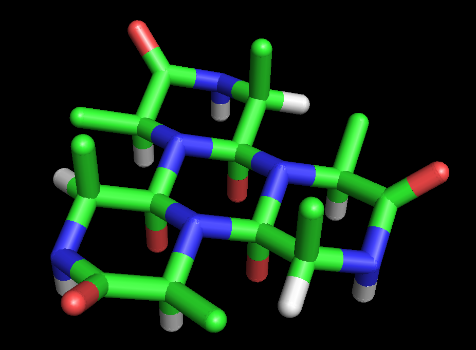 "Stick" image of the cyclol-6 molecule proposed by Dorothy Maud Wrinch in 1936 (Nature, 137, 411-412). This molecule can be considered a cyclic hexapeptide in which three peptide groups have fused by cyclol reactions into a central ring. Note that the three outer (unfused) peptide groups are not planar, but have dihedral angle ω=60°. The three red atoms in the central ring represent the hydroxyl groups formed by the cyclol reactions, whereas the three outer red atoms represent the oxygens of carbonyl groups. The PDB file was constructed by me using my own software and visualized using PyMol; both were done on 20 October 2006. I hereby release this image under the GFDL.